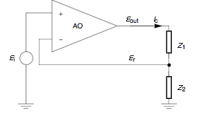 Scheme of a potentiostat